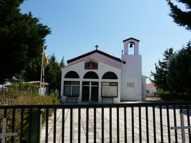 church in Tavri